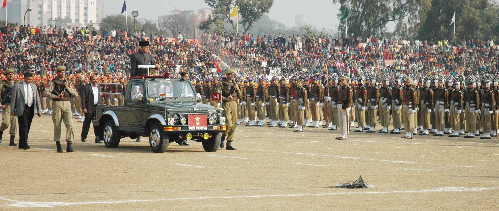 Jammu, January 26 Jammu and Kashmir Governor N. N Vohra inspecting the parade during the 61st Republic Day celebrations at M.A Stadium in Jammu on Tuesday. Photo by Vishal Dutta